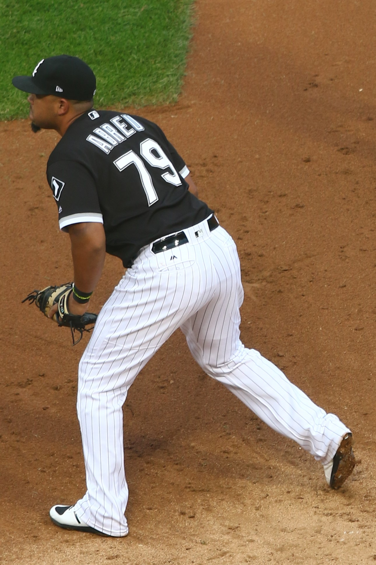 Jose Abreu for the 2017 Chicago White Sox